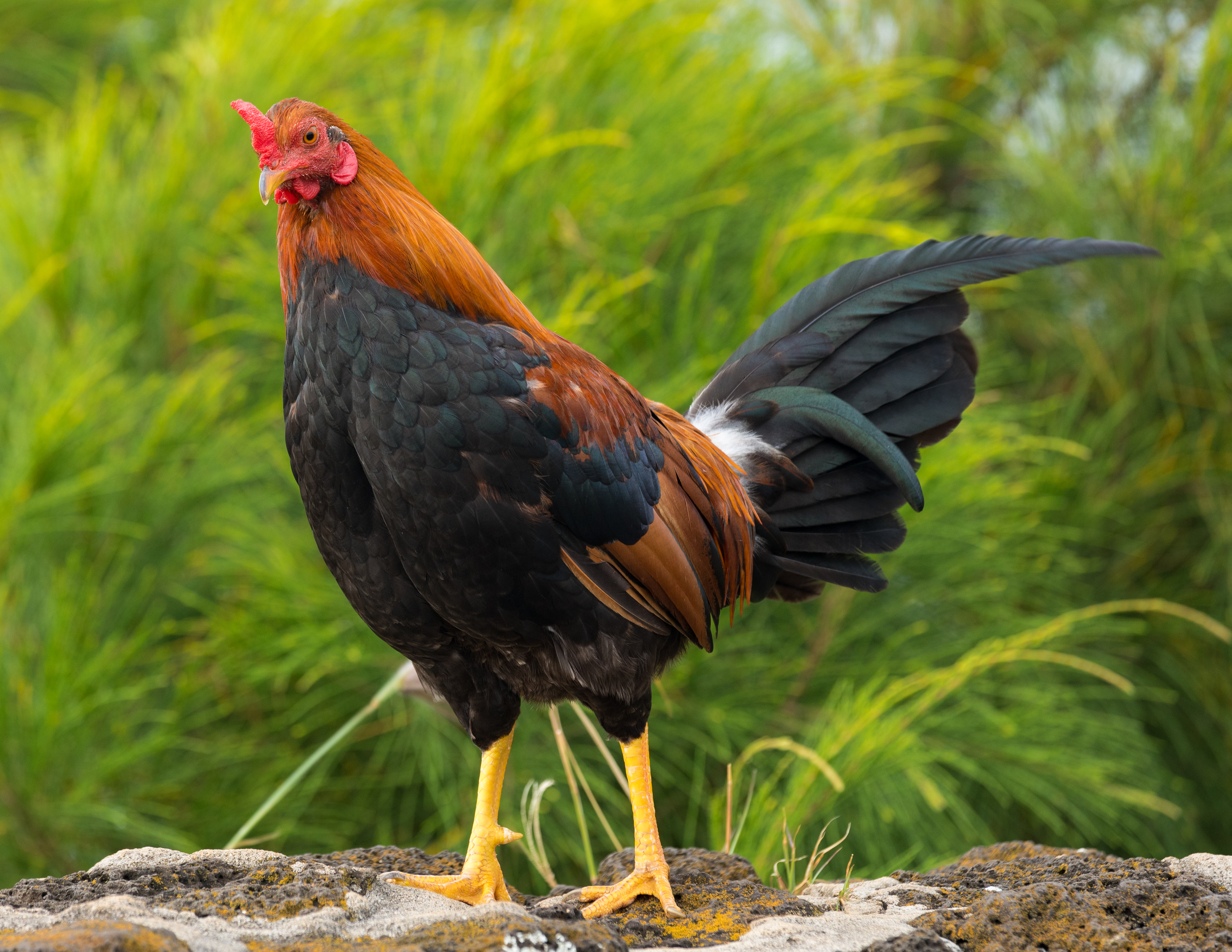 Feral rooster on Kauaʻi